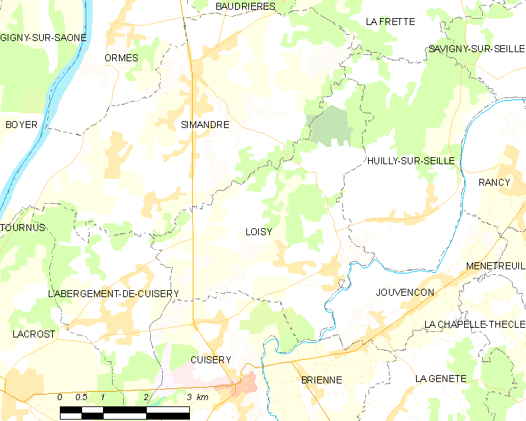 Map of French municipality